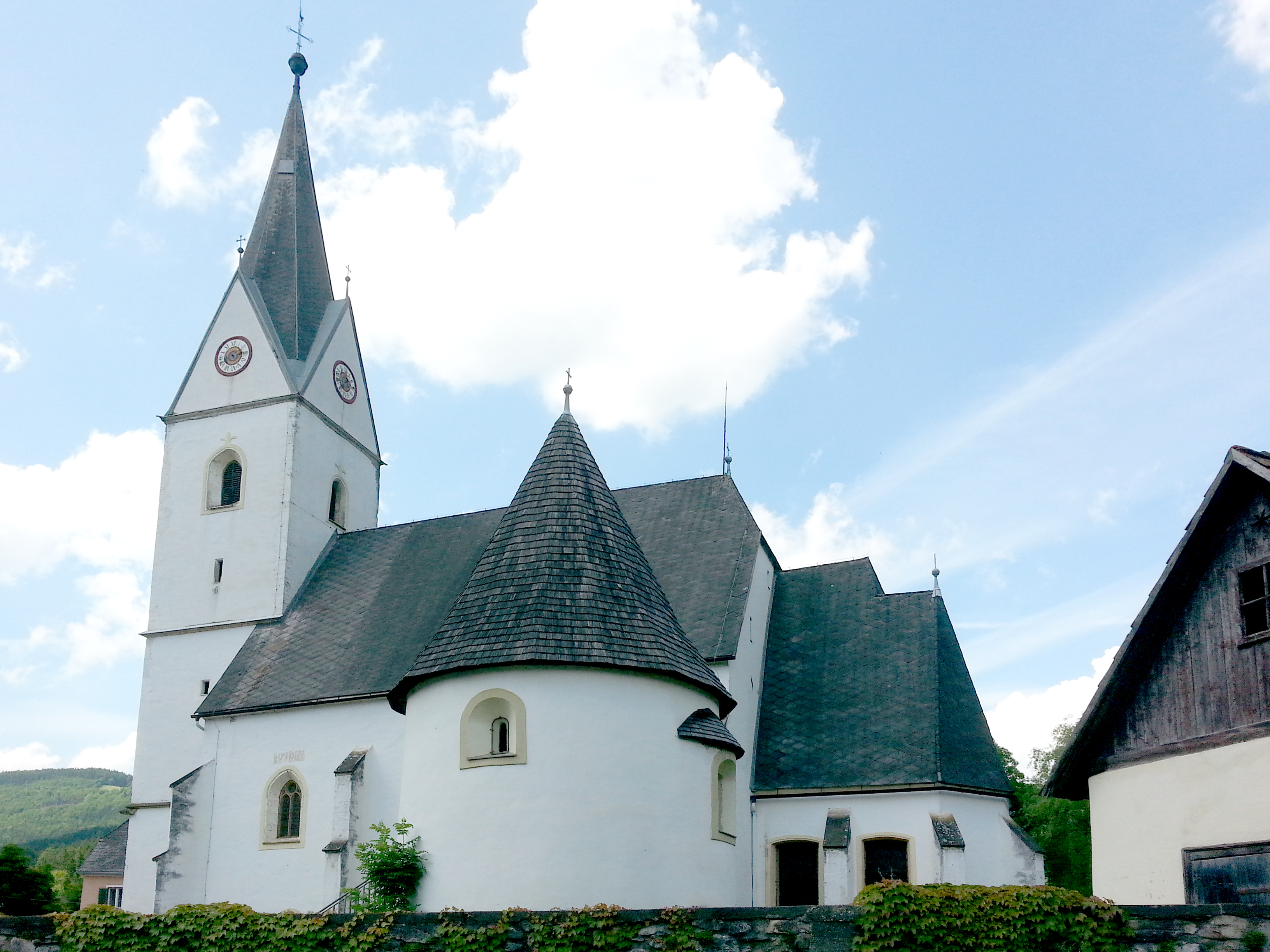 Pfarrkirche Geistthal mit Karner von Süden